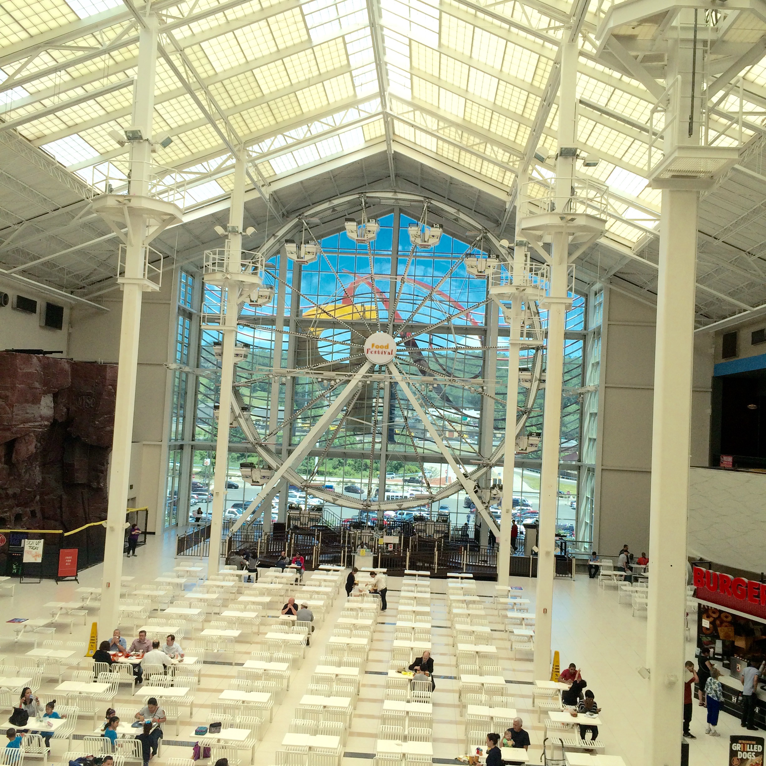 The Palisades Mall Ferris wheel